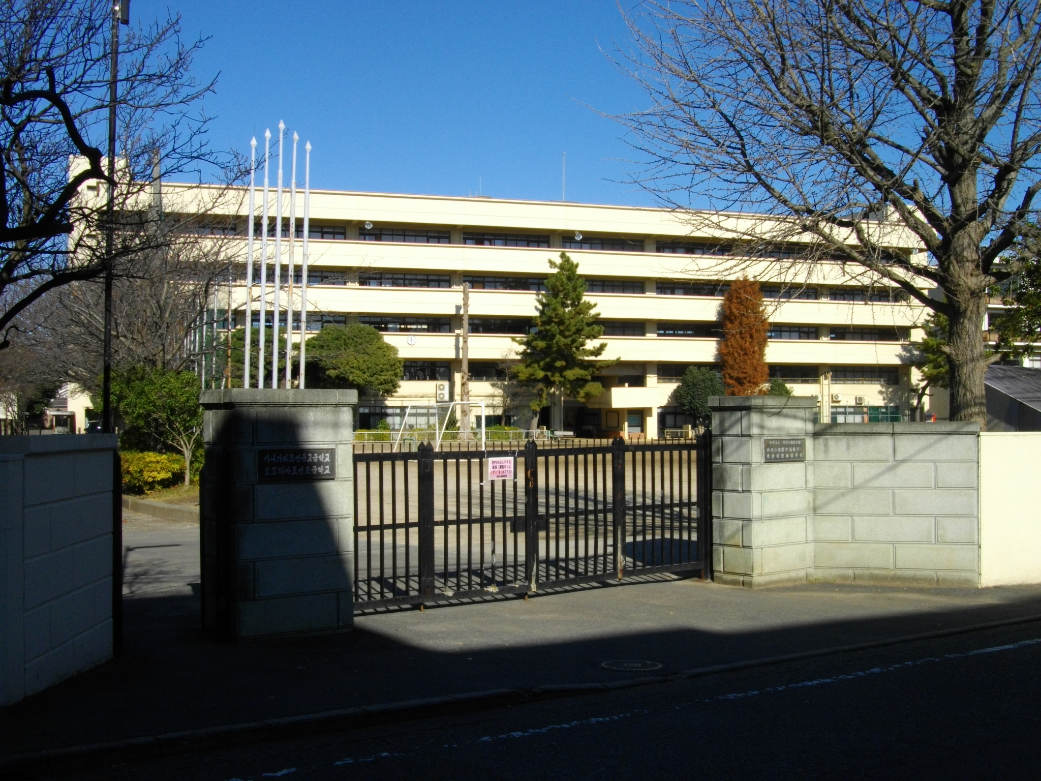 Kanagawa Korean Junior and Senior High School